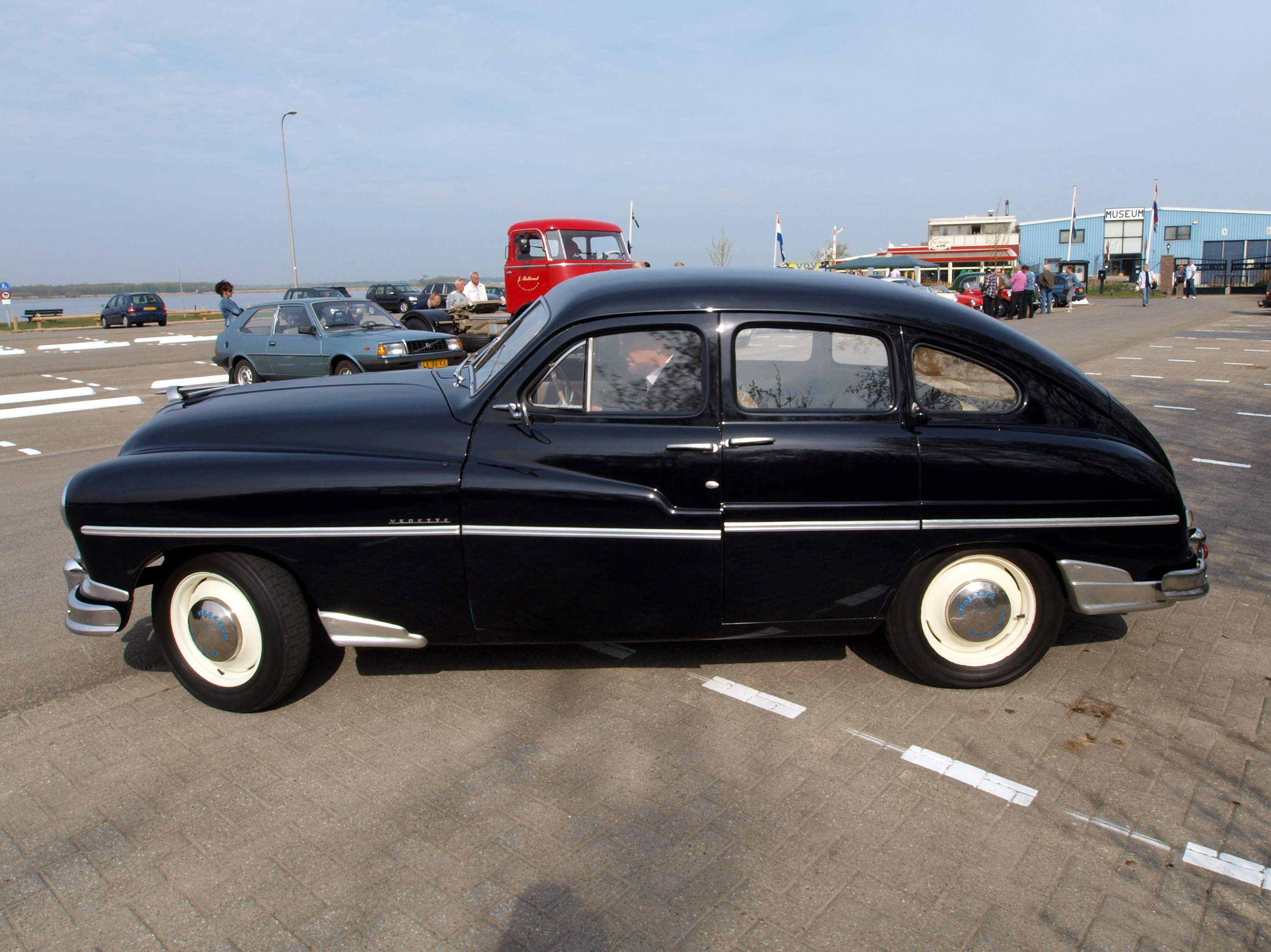 Cars and motorcycles photographed at the Voorschotense Oldtimer Vereniging Show, Valkenburgse meer, The Netherlands. OLYMPUS DIGITAL CAMERA